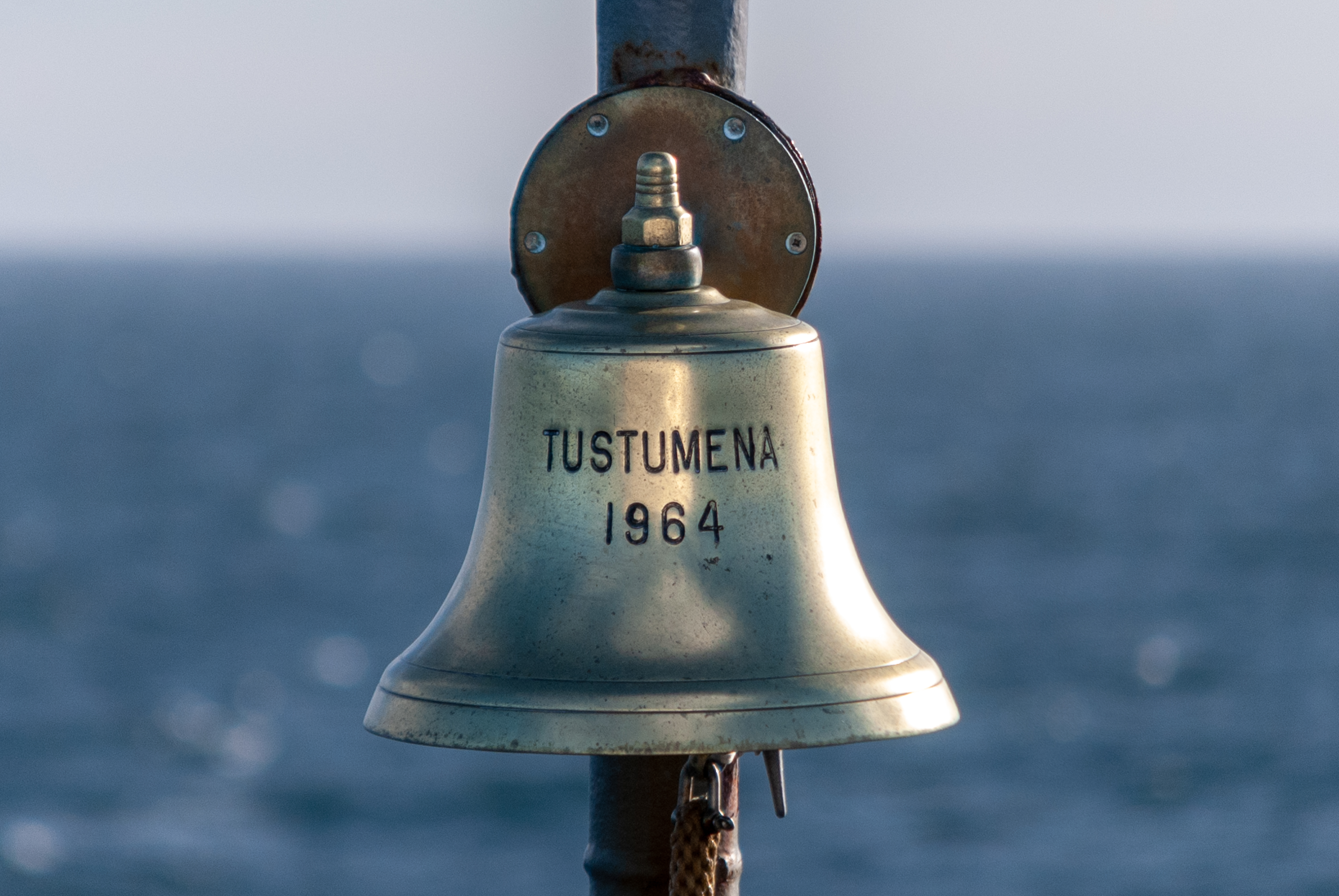 Bell on the bow of the MV TUSTUMENA in Sand Point, Alaska, with build date “1964”.